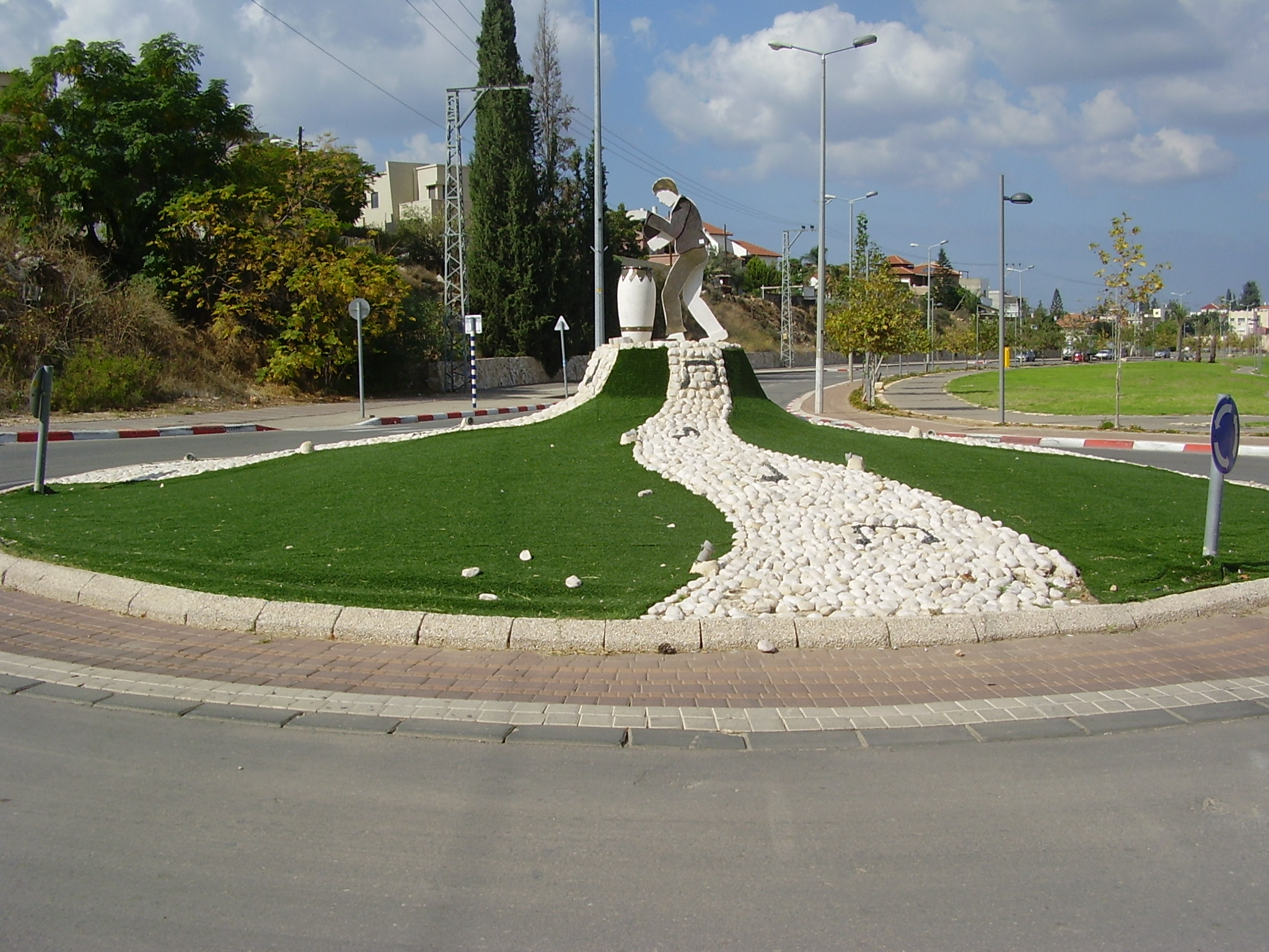 Drammer square in Rosh Ha'ayin